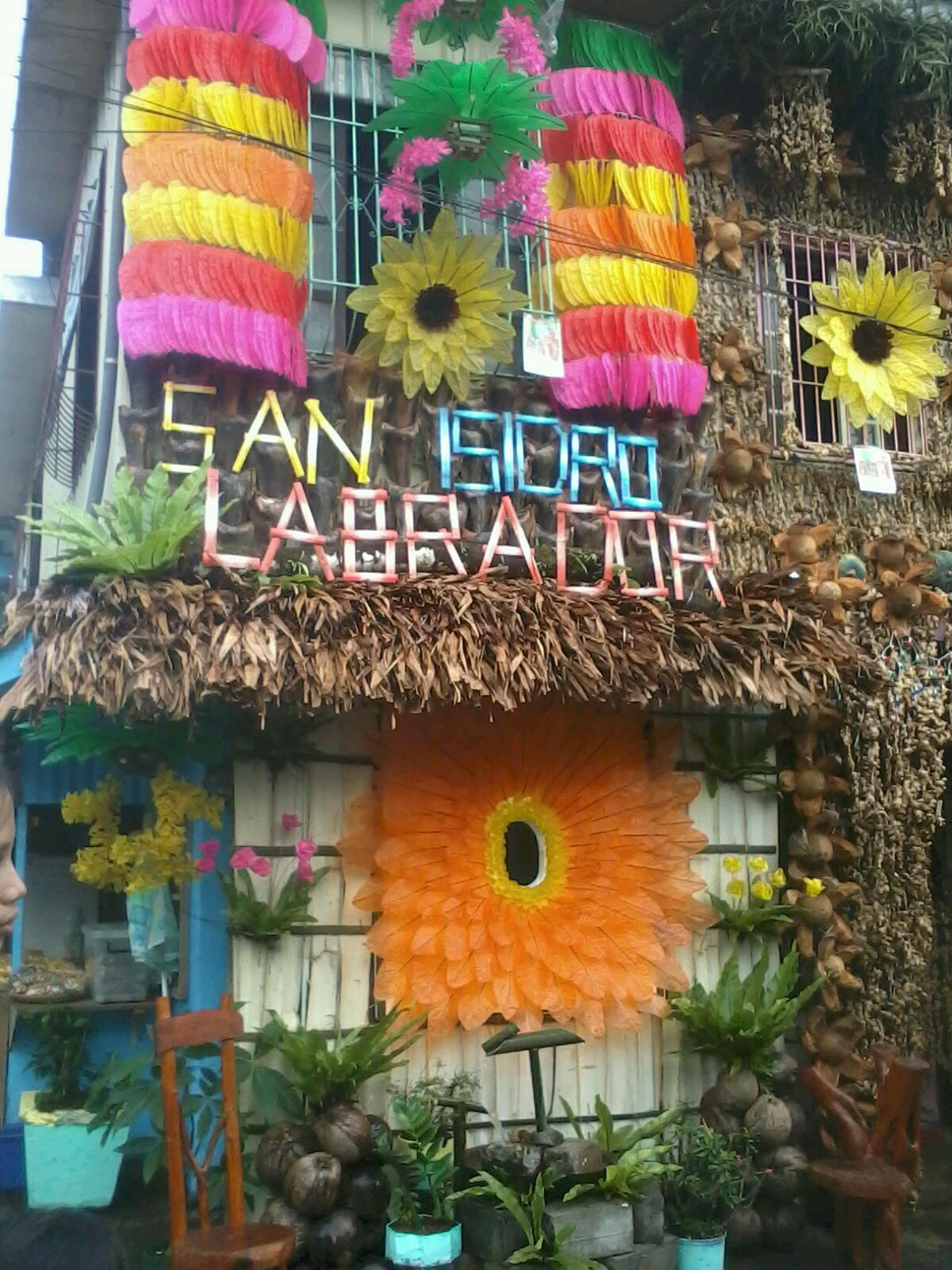 The annual Pahiyas festival in honor of Lucban, Quezon's patron saint of the the farmers, St. Isidore the Farmer. The festival is known for colorful house decorations made of agricultural products, celebrated every May 15.